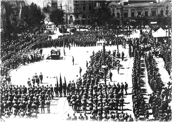 The Soviet Russian 11th Red Army holds military parade in Tbilisi, February 25, en:1921